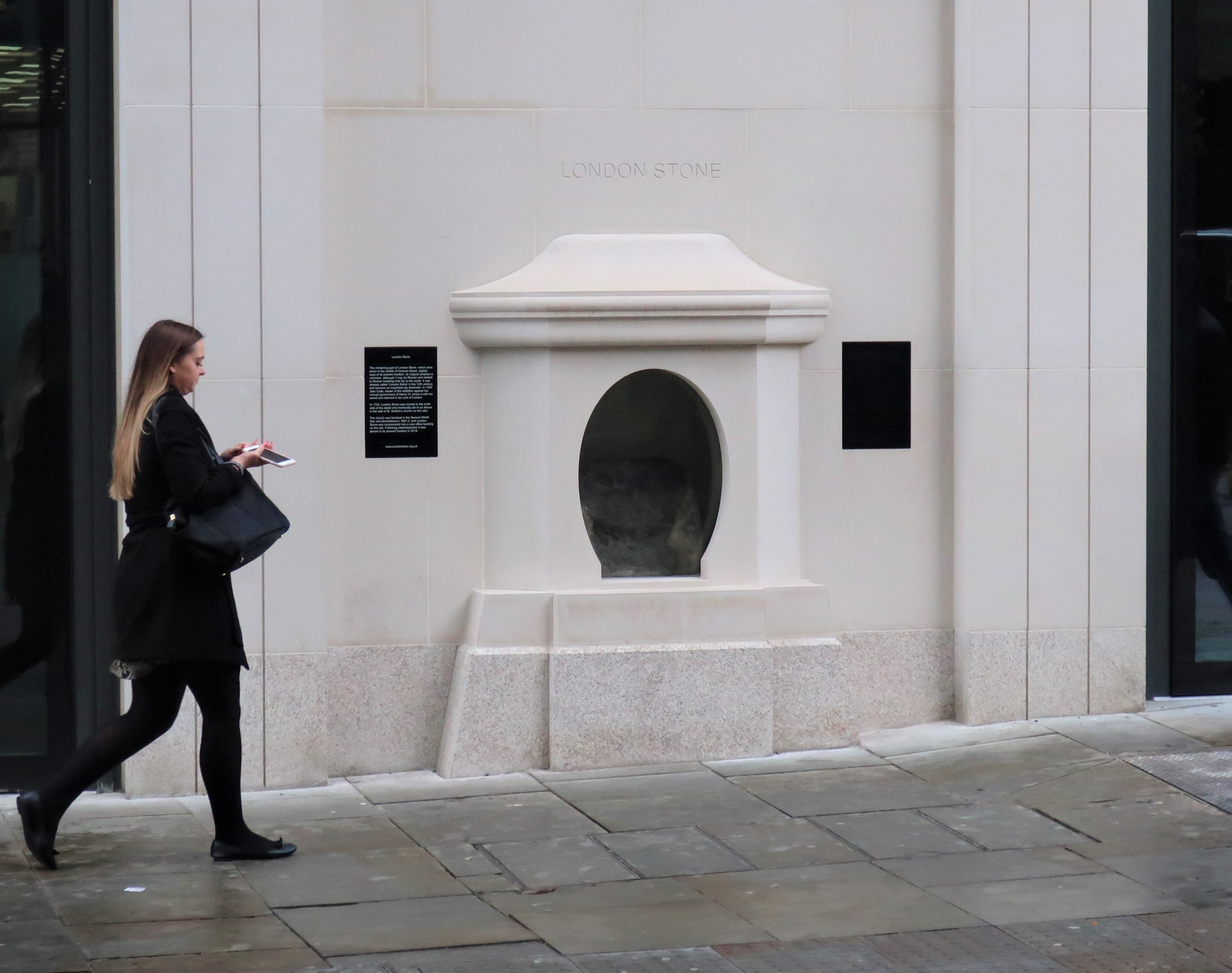 London Stone, Cannon Street, London, in its current casing, unveiled in October 2018